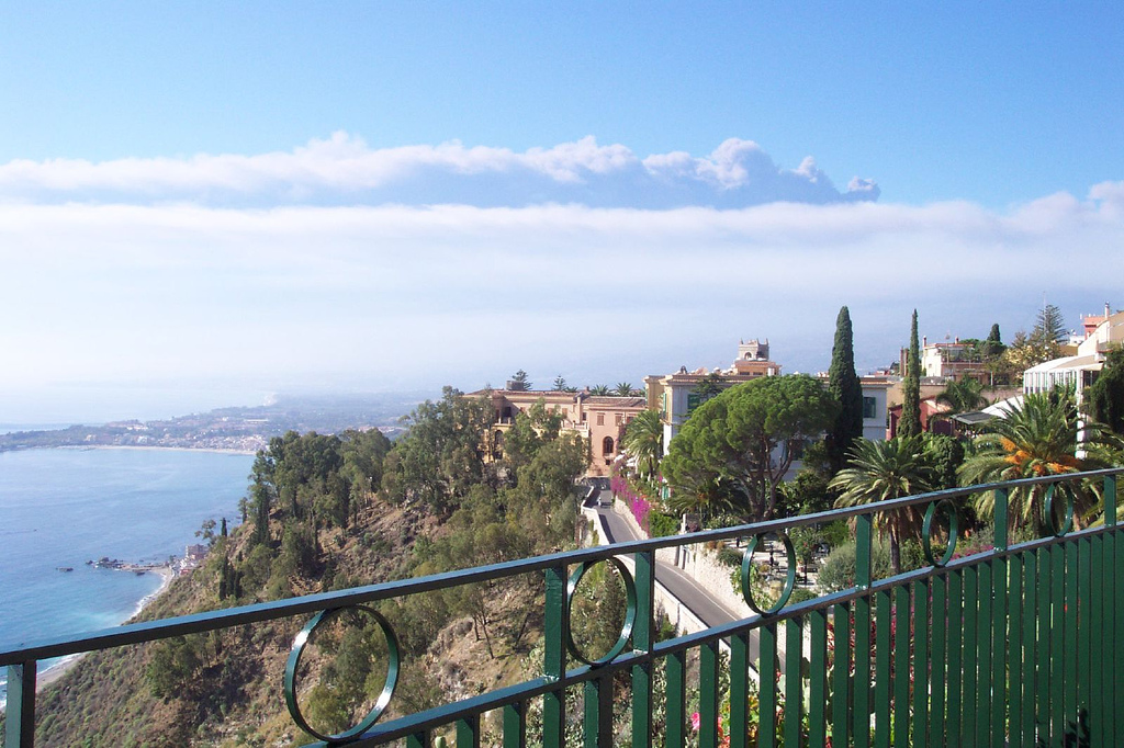 Taormina view with Giardini-Naxos gulf, Province of Messina, Sicilia, Italy